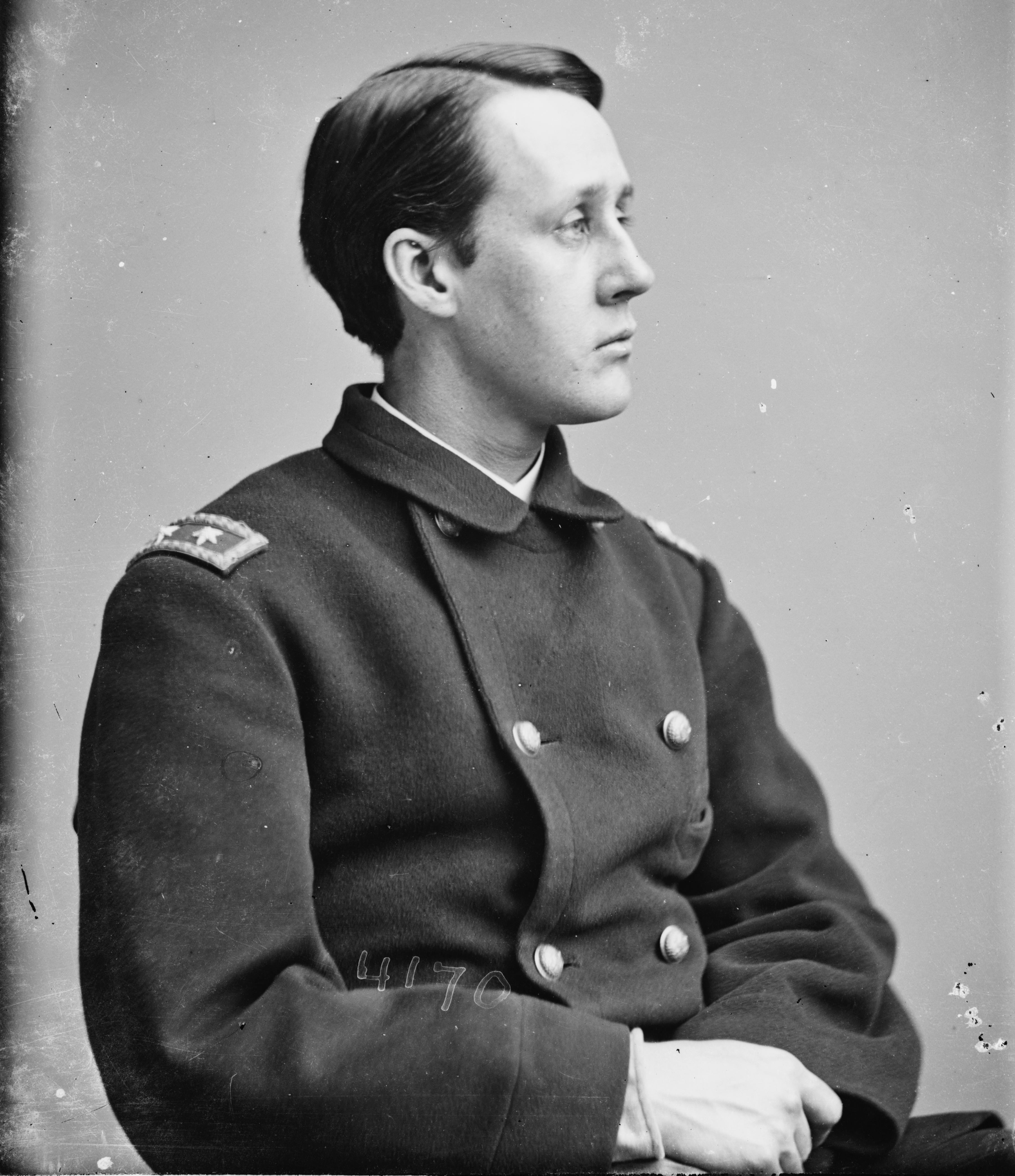 Francis C. Barlow. Library of Congress description: "Gen. Francis Barlow"